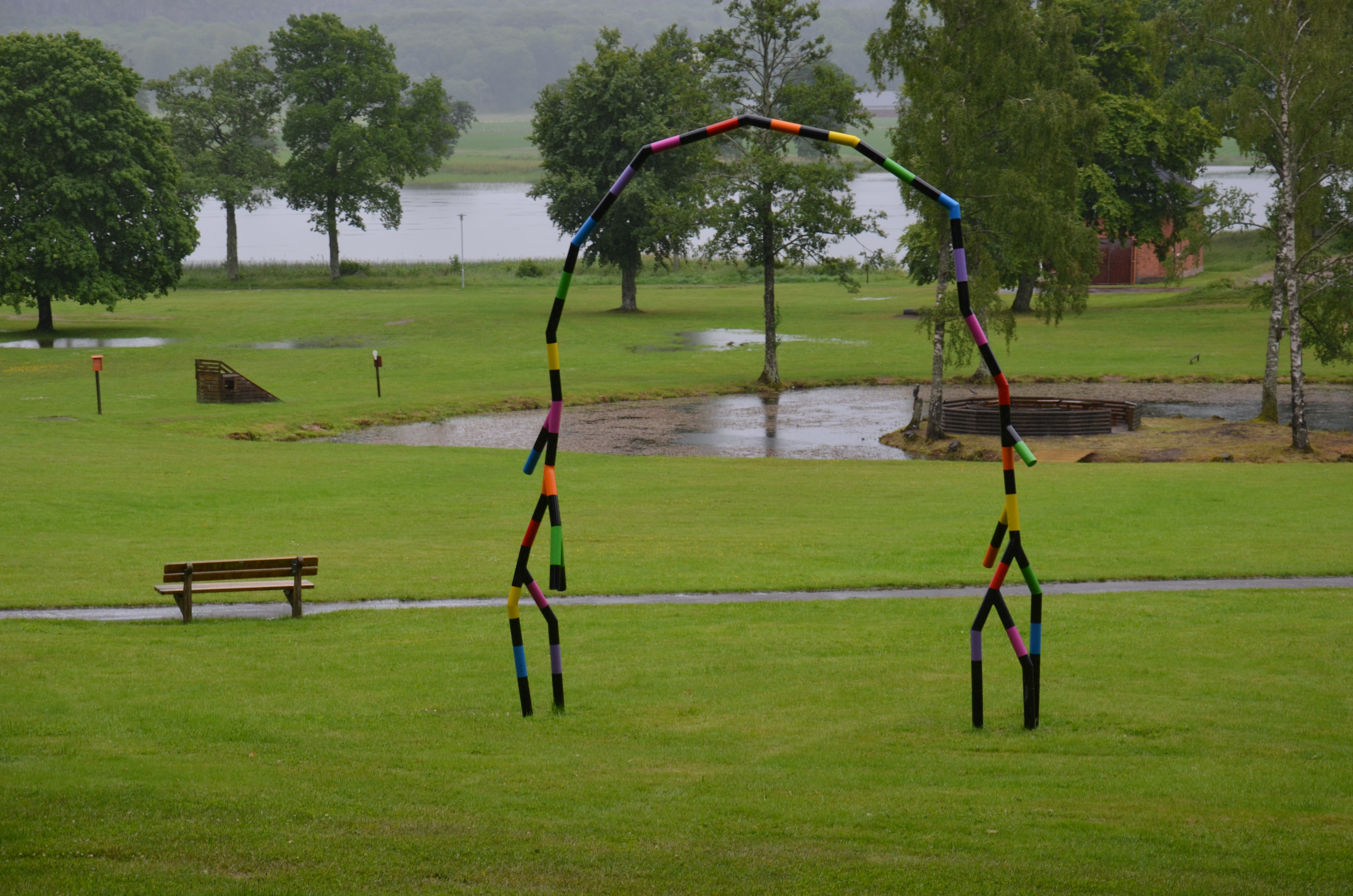 Eva Rothschild´s Someone and Someone, displayed at Skulptur i Pilane in Sweden 2011, erected at Restad gård in Vänersborg, Sweden, 2012